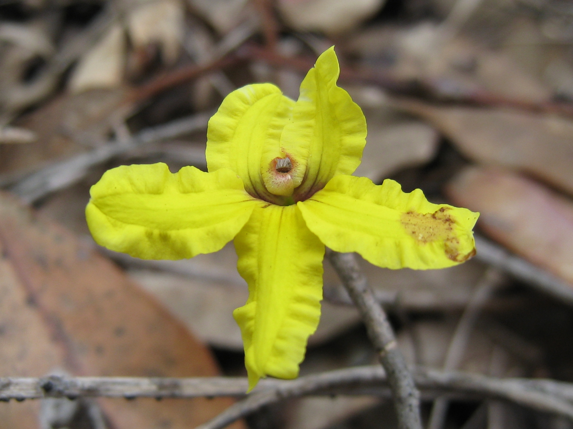 Goodenia hederacea. Paruna Reserve, Como NSW Australia, November 2010.